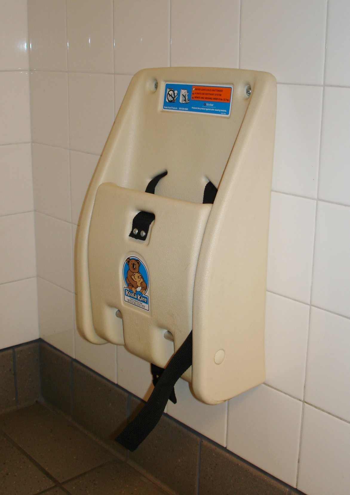 Wall-mounted and collapsible child seat, frequently available in public toilets in the United States. Allows Mom to pee with her hands free instead of holding on to her baby or toddler.